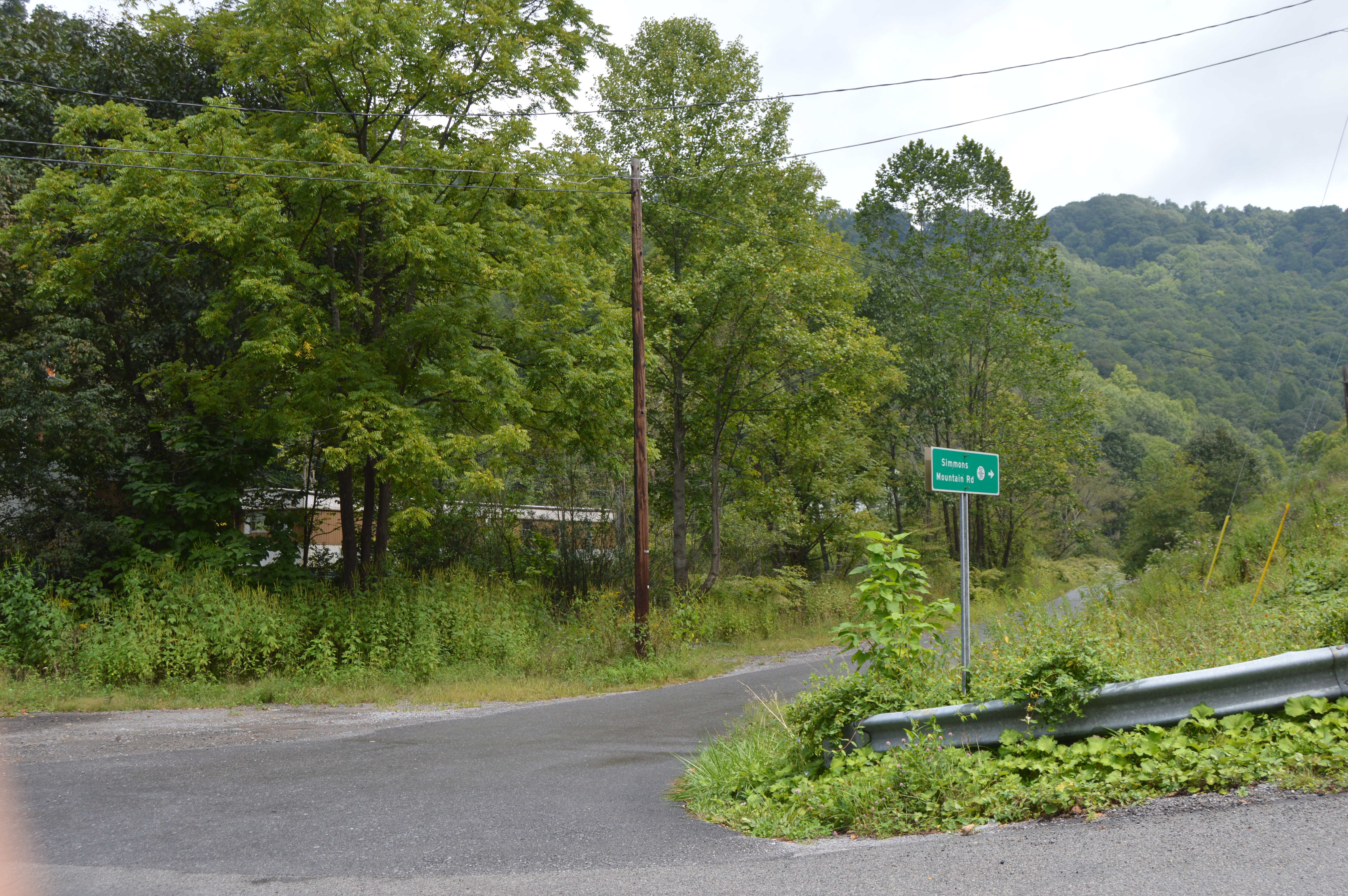 Overview from U.S. Route 52 of the site of the Pocahontas Fuel Company Store at Maybeury, West Virginia, United States. Listed on the National Register of Historic Places in 1992, it has not yet been delisted from the Register, despite its destruction.